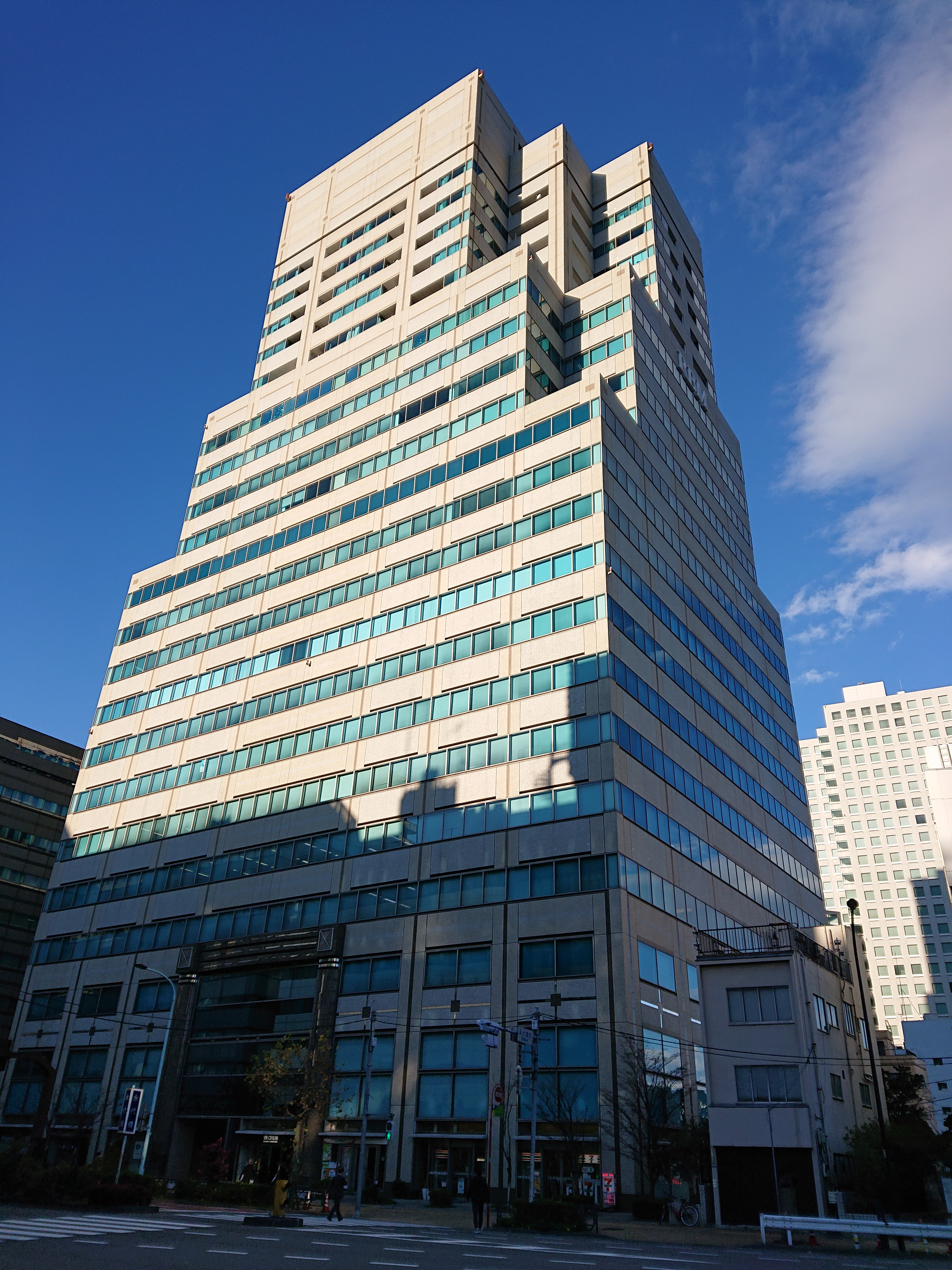 Kayabacho Tower (茅場町タワー), located at 1-21-1 Shinkawa, Chuo, Tokyo, Japan